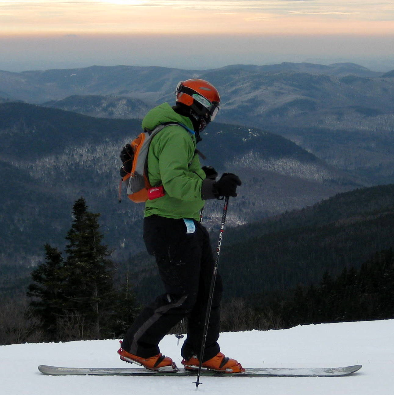 A Teleboard with rider, in profile. A Teleboard is essentially a wide ski with a pair of telemark bindings mounted on it. This picture clearly shows the orientation of the bindings in relation to the board. The Teleboard was created in 1996 by Martin Fey and Erik Fey, and patented shortly thereafter. It's design began as an evolution on alpine snowboards, intended to turn more nimbly and be more suited to moguls. By being narrower than any snowboard, and allowing considerable freedom of motion, the Teleboard is an extremely versatile tool for riding down a mountain. This photo was taken at Waterville Valley, in New Hampshire.